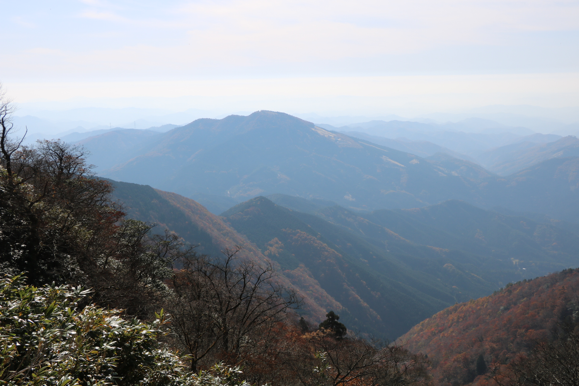 Hinakurayama seen from the north. Taken from Ushiroyama.